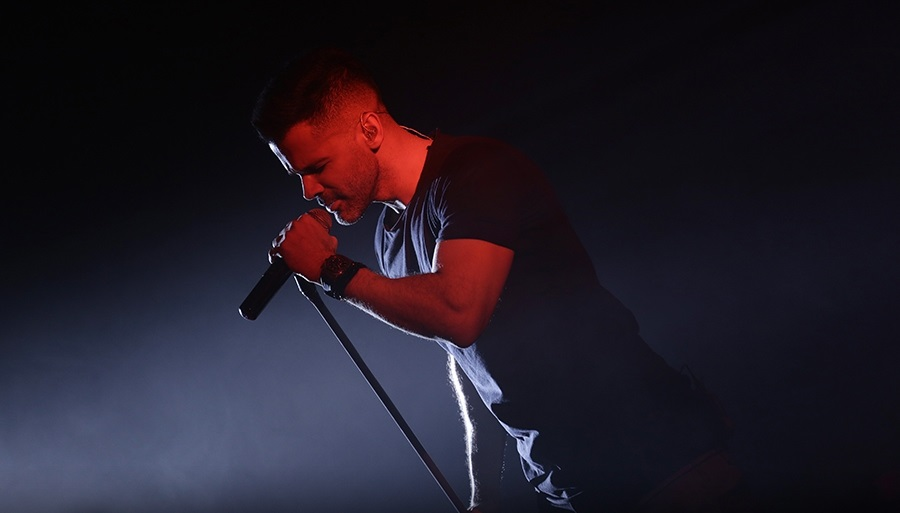 Sirvan Khosravi concert at Iranian Conference Hall in Tehran